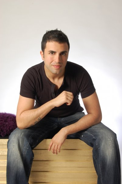 Jad Choueiri